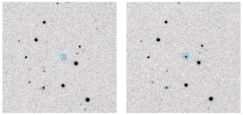 Supernova iPTF14hls before and after detection.